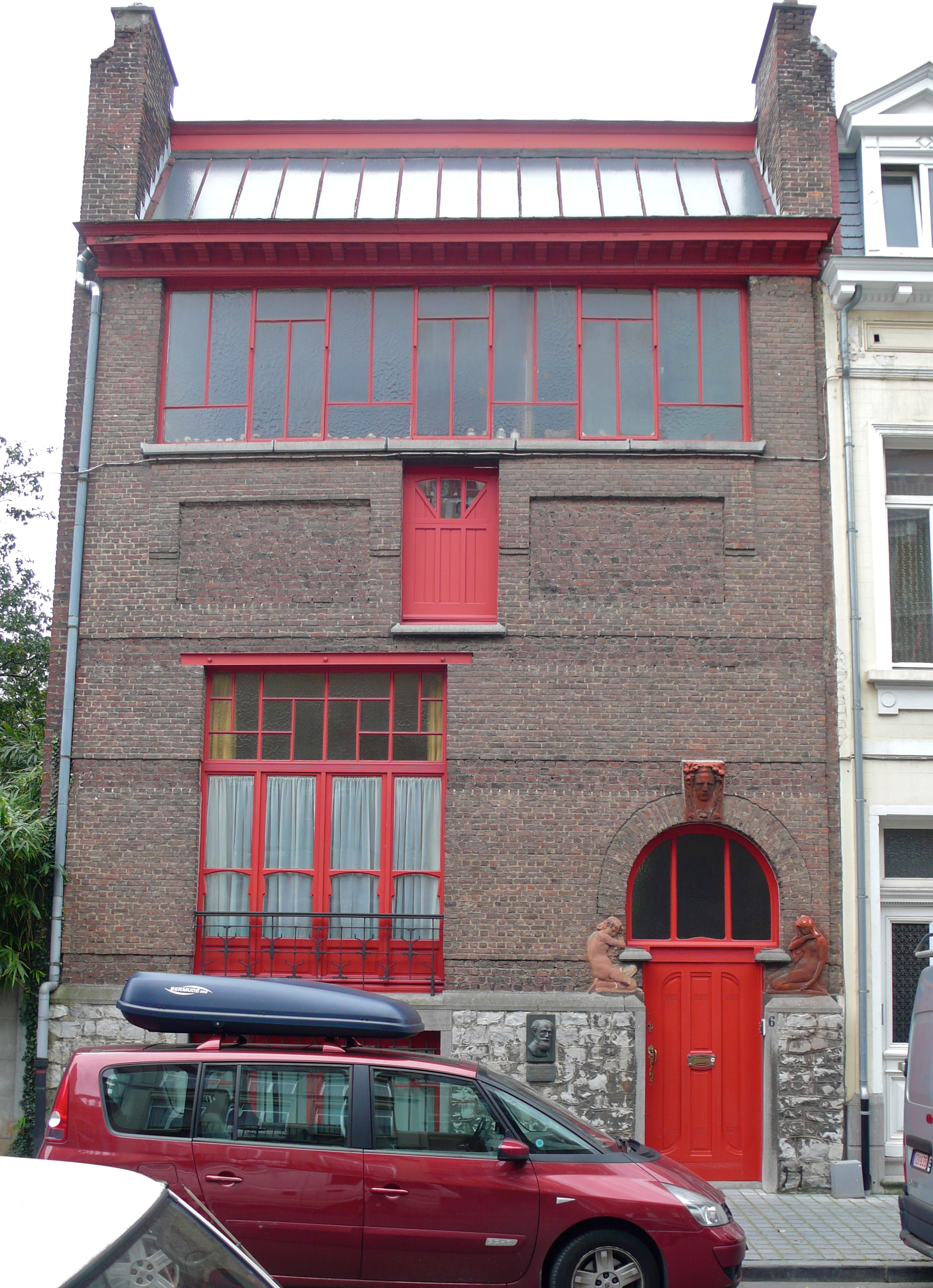 Former studio of the painter Emile Fabry, built in 1902 by Emile Lambot. Style: Premodernism, Art Nouveau. Address: rue du Collège Saint-Michel 6, 1150 Woluwe-Saint-Pierre (Brussels)